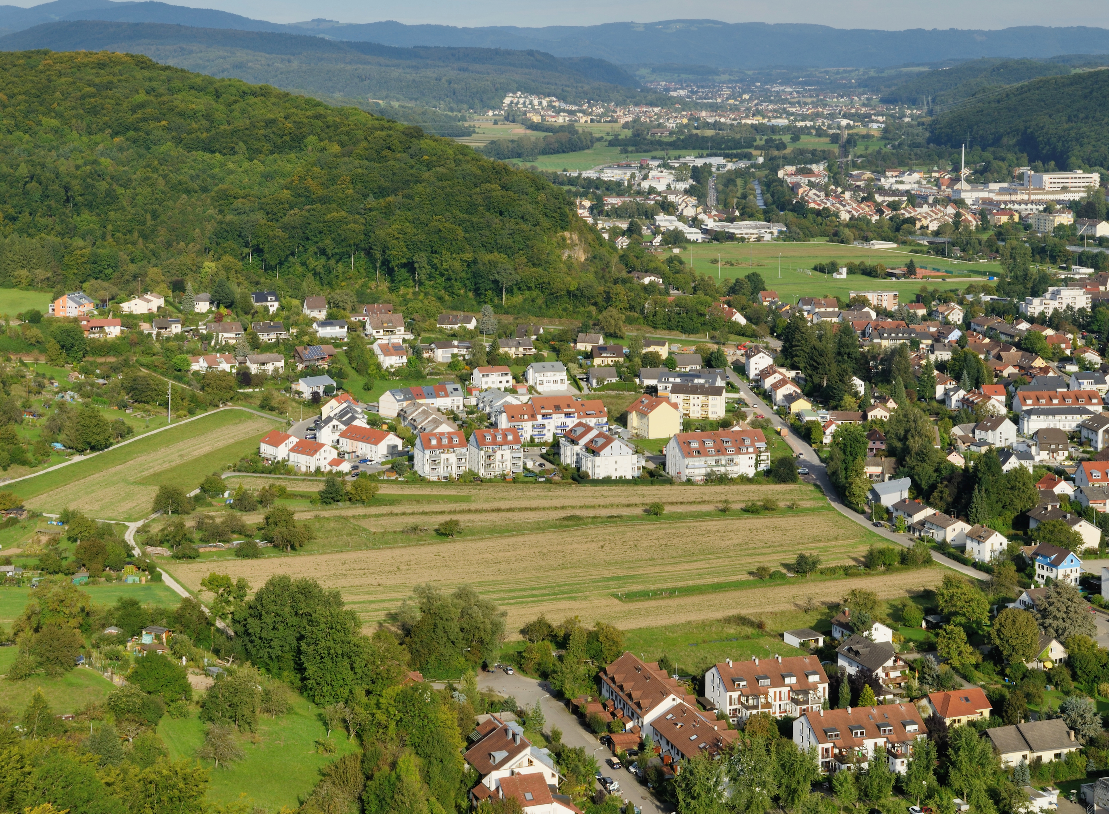 Lörrach-Haagen: new settlement